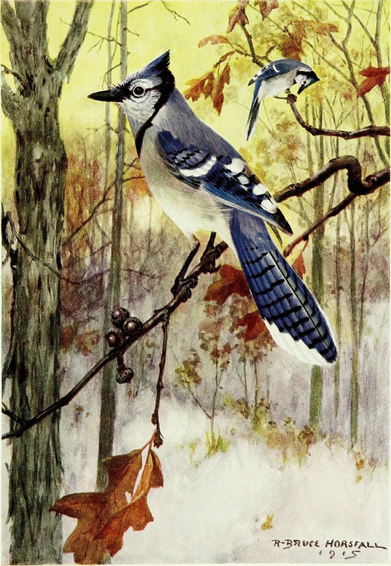 Title: A year with the birds Year: 1916 (1910s) Authors: Ball, Alice Eliza, 1867- Horsfall, R. Bruce (Robert Bruce), 1869-1948. illus Subjects: Birds Birds Publisher: New York City, Gibbs & Van Vleck Text Appearing Before Image: ring.And life to forests gaunt and chill they bring. A. E. B. 20 The Blue Jay 21 The Blue Jay A flash of blue, a dash of white, Gleam from the branches dead,As from oaks to beeches and hickories flits The jay with the crested head;Then in crannies the acorns and nuts he stores, His winters feast to spread. Tis said hes the dread of the feathered-folk,— This robber in bright array—That they mourn when he drives them from new-builtnests. Or carries their eggs away,And cry aloud when he takes their young, With his Yah, yah, jay! Devoted is he to his nestlings and mate. Or to jays that are feeble and old;Delightfully gentle his household ways. Though his neighbors he loves to scold.Pedunkle! Pedunkle! Parlez-vous! Sweet tones his voice can hold. Hes a handsome, noisy, unsociable bird,— An amusing mimic and tease;Hes the bane of the sleepy, half-blind owls, Till the mischievous fellow they seize;But in spite of his pranks, we like him well. This clever knave of the trees. A. E. B. 22 Text Appearing After Image: 9 ^sr BLUE JAY The Cardinal 23 The Cardinal When autumn woods are bare and dead, A crested bird, of cardinal red. Sways like an oak-leaf overhead; And sighs, D d d r r r e e e a a a r ! r ! r ! When winter woods are white with snow, And drifts pile high as wild winds blow. Like flame this torchlike bird doth glow; And cries, W w w h h h e e e w ! w ! w ! When springtimes crimson buds appear, And red-gold columbines are here. This songster welcomes the new year; And sings, C c c h h h e e e e e e r ! r ! r ! When summers sun sheds scorching beams,And cardinal flowers beside the streamsGrow wild, this brilliant bird still gleams;And whistles, H h h u u u e ! e ! e ! A. E. B. 24cu31924000167100